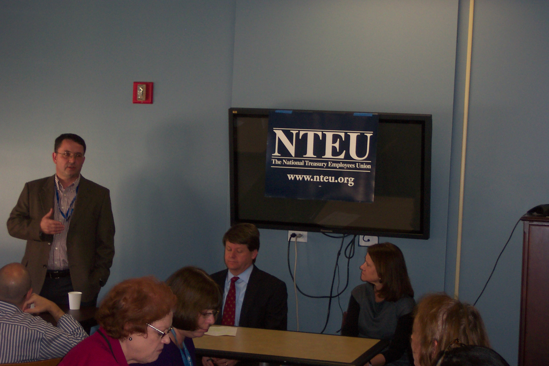 Panel discussion on 29 October 2013 with (l to r) President James A. Quinn, NTEU, Mike Henry, Chief of Staff to Tim Kaine, and other NTEU official